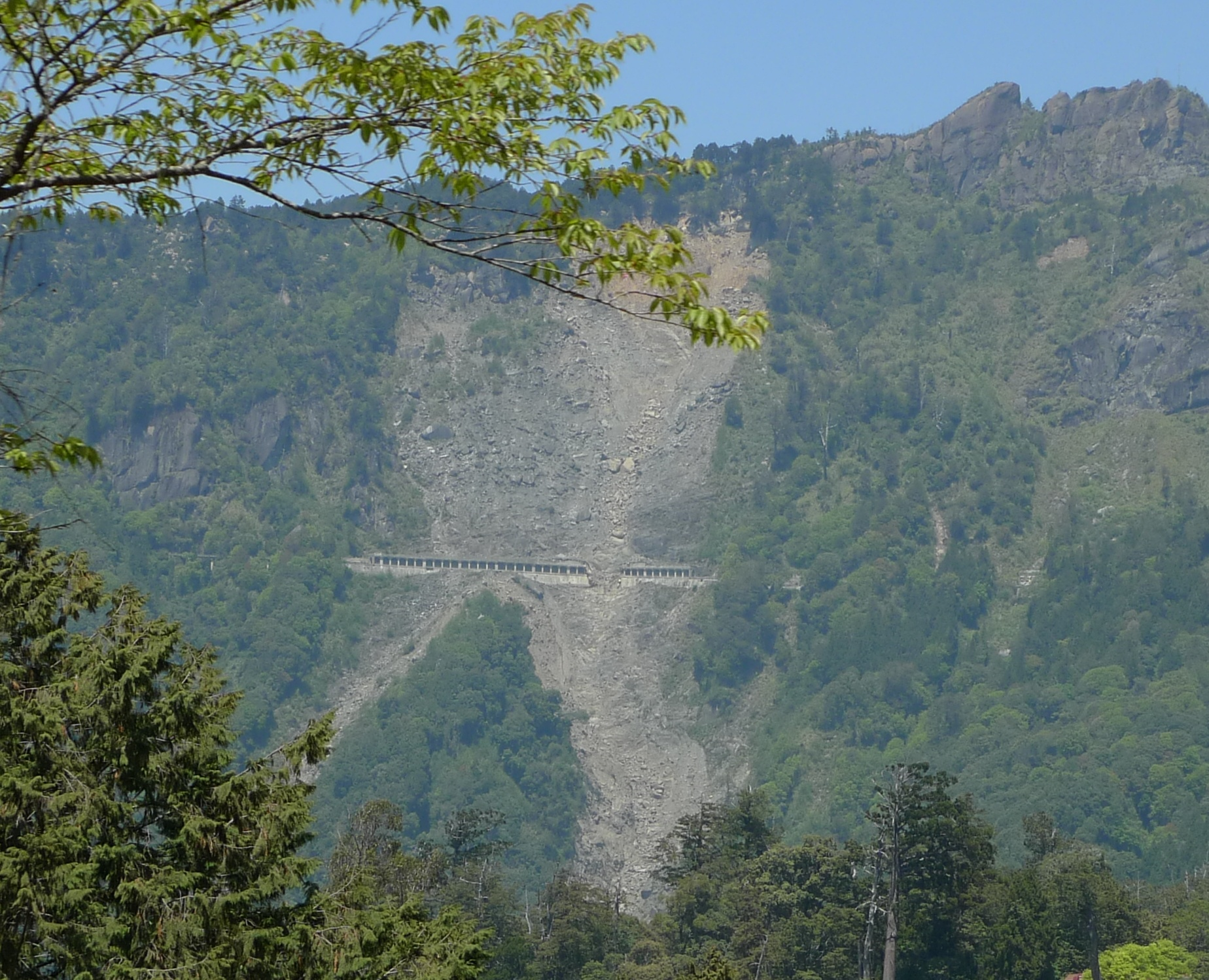 A damaged portion ( 23°31'55.80"N, 120°48'18.03"E ) of the Alishan Forest Railway destroyed by a landslide caused by Typhoon Morakot in August 2009. Image was taken from the Alishan National Scenic Area across the valley